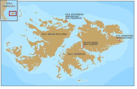 Argentine air bases on the Falkland Islands during the 1982 Falklands War (Guerra de las Malvinas)